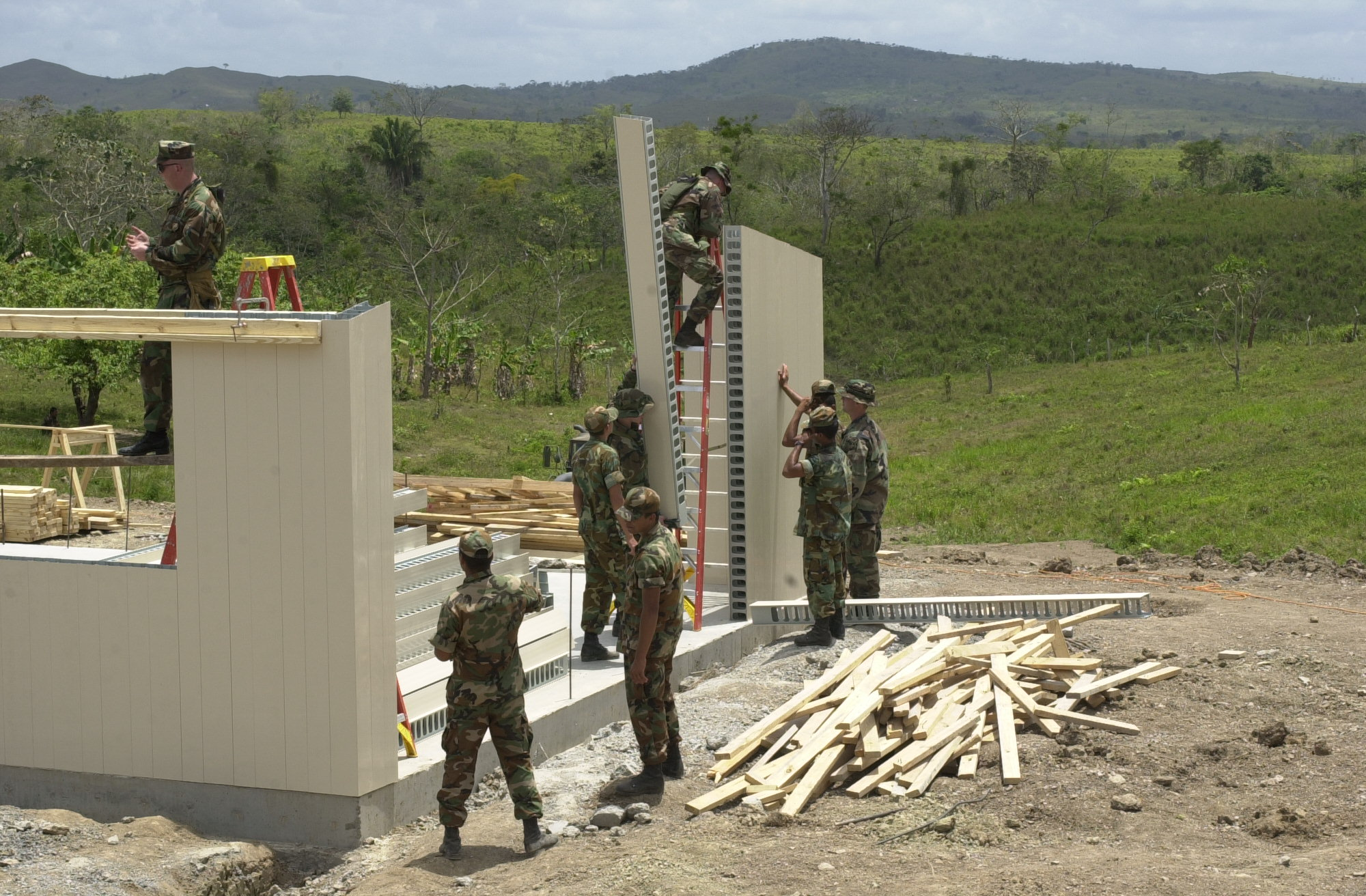 United States Marines from Charlie Company, 6th Engineer Support Battalion in Peoria, Illinois and Nicaraguan soldiers building a school in Chontales, Nicaragua as part of Joint Task Force Chontales during Operation New Horizons.